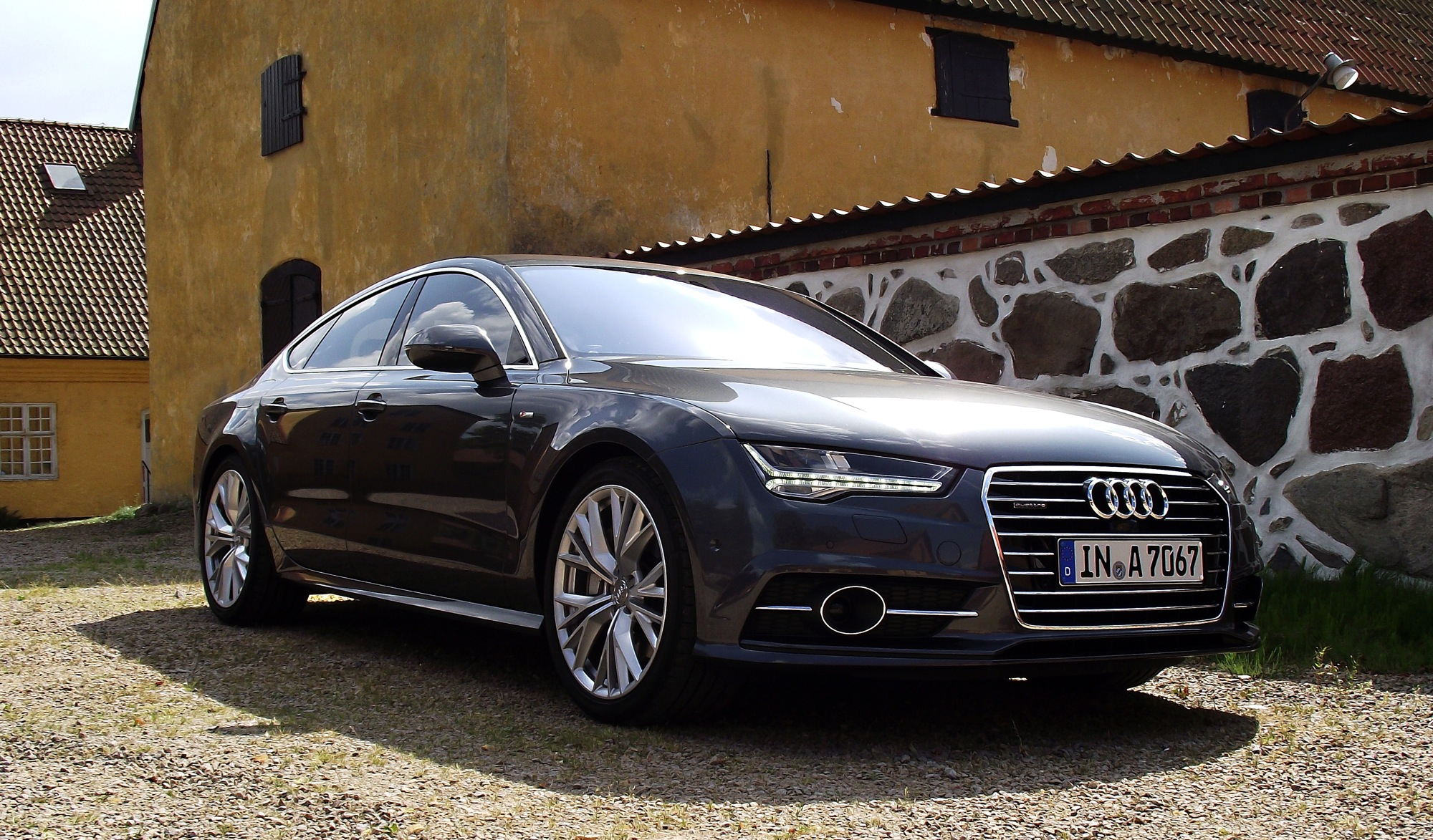 2014 Audi A7 Sportback 3.0 TDI competition Front View